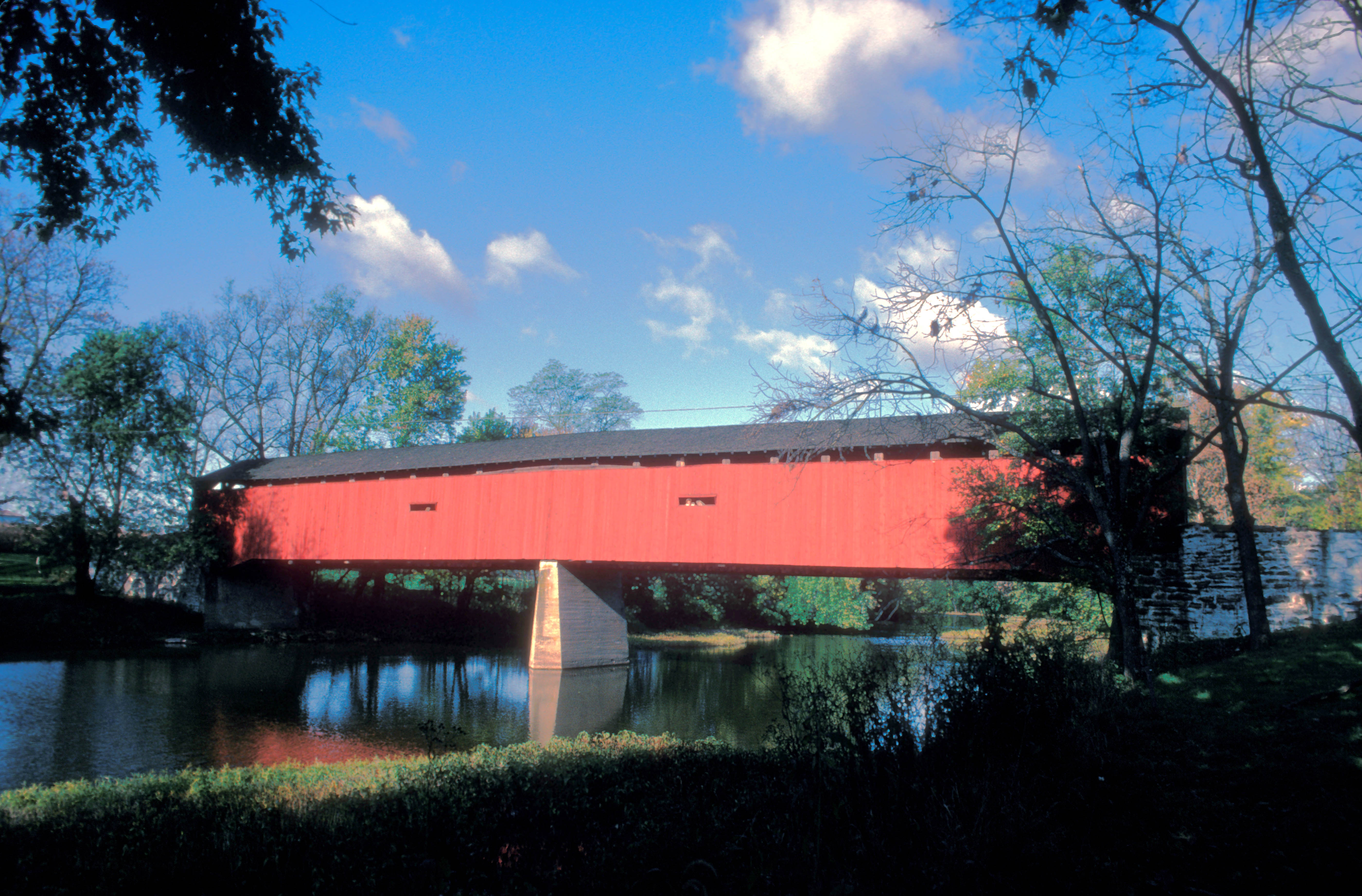 Dellville Covered Bridge OVER SHERMAN’S CREEK in Wheatfield Township, Perry County, Pennsylvania, USA; 1836 BURR; 175’